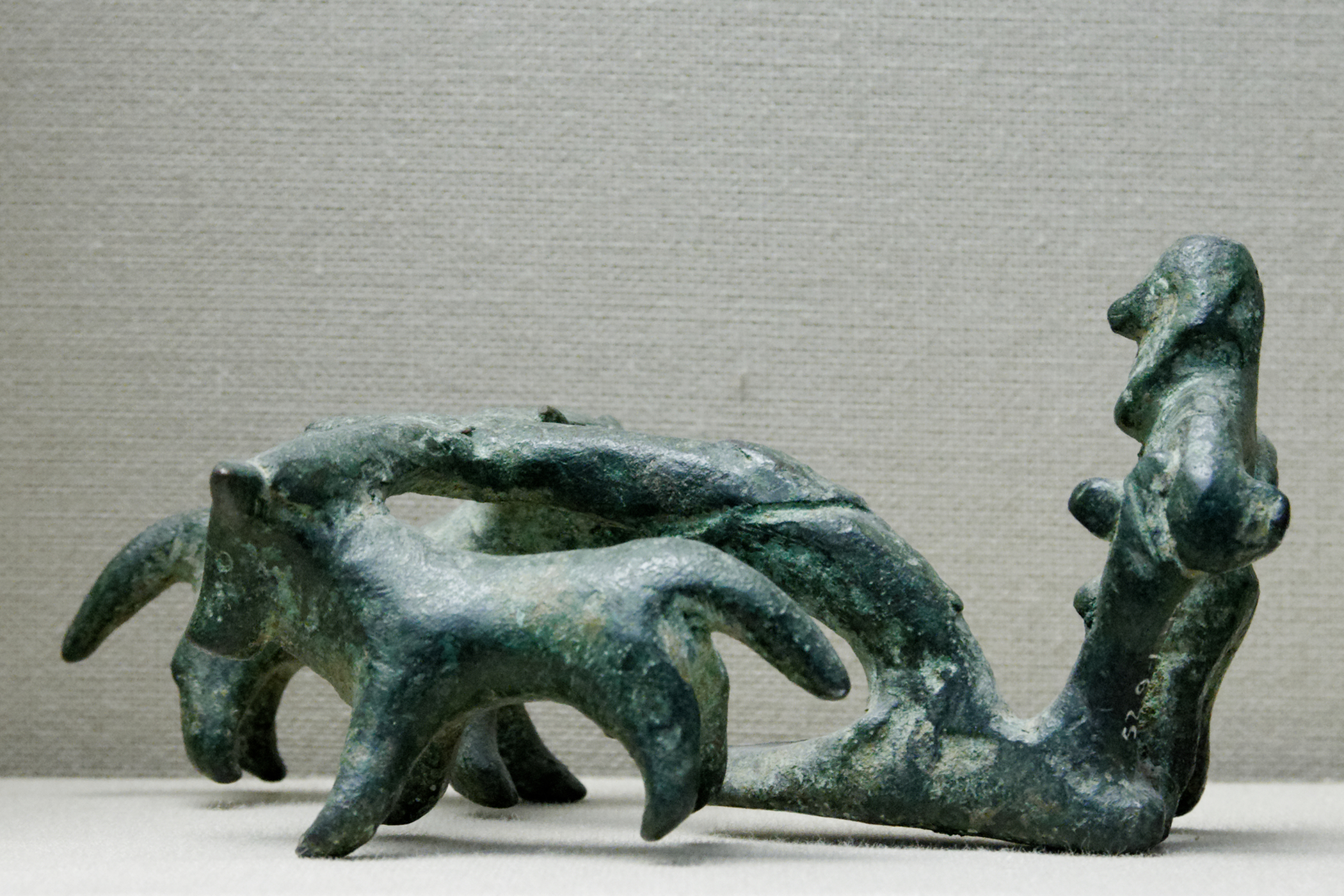 Ploughman and his team of oxen. Greek artwork, probably made in Asia Minor.